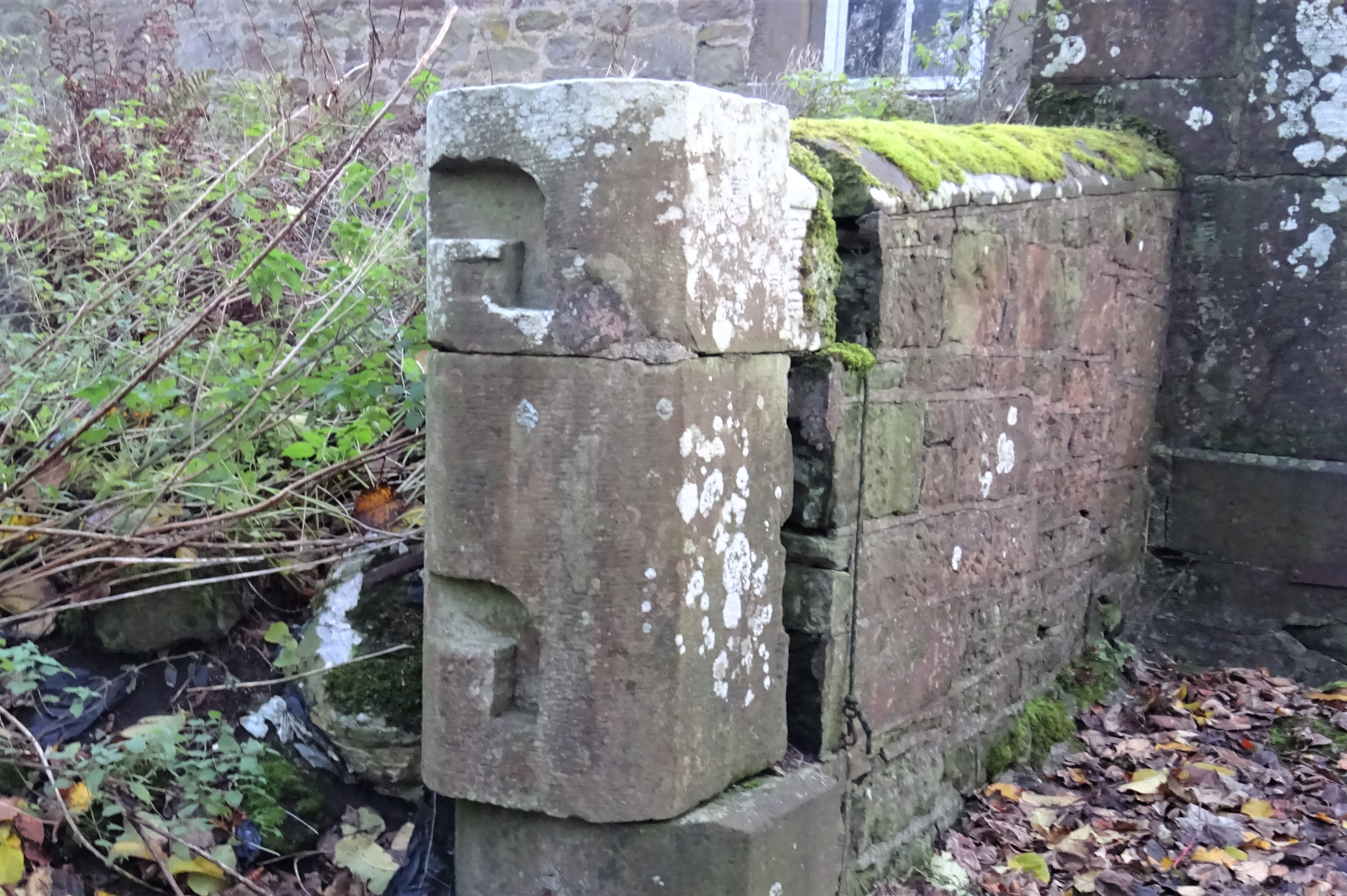 An unusual slip gate, Hoddom Mains Farm, Annan, Dumfriesshire, Scotland.